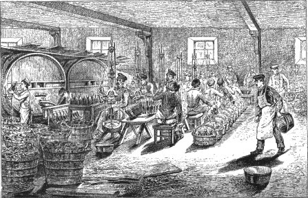 THE TIRAGE OR BOTTLING OF CHAMPAGNE AT THE ESTABLISHMENT OF MESSRS. G. H. MUMM & CO. (p. 76.).